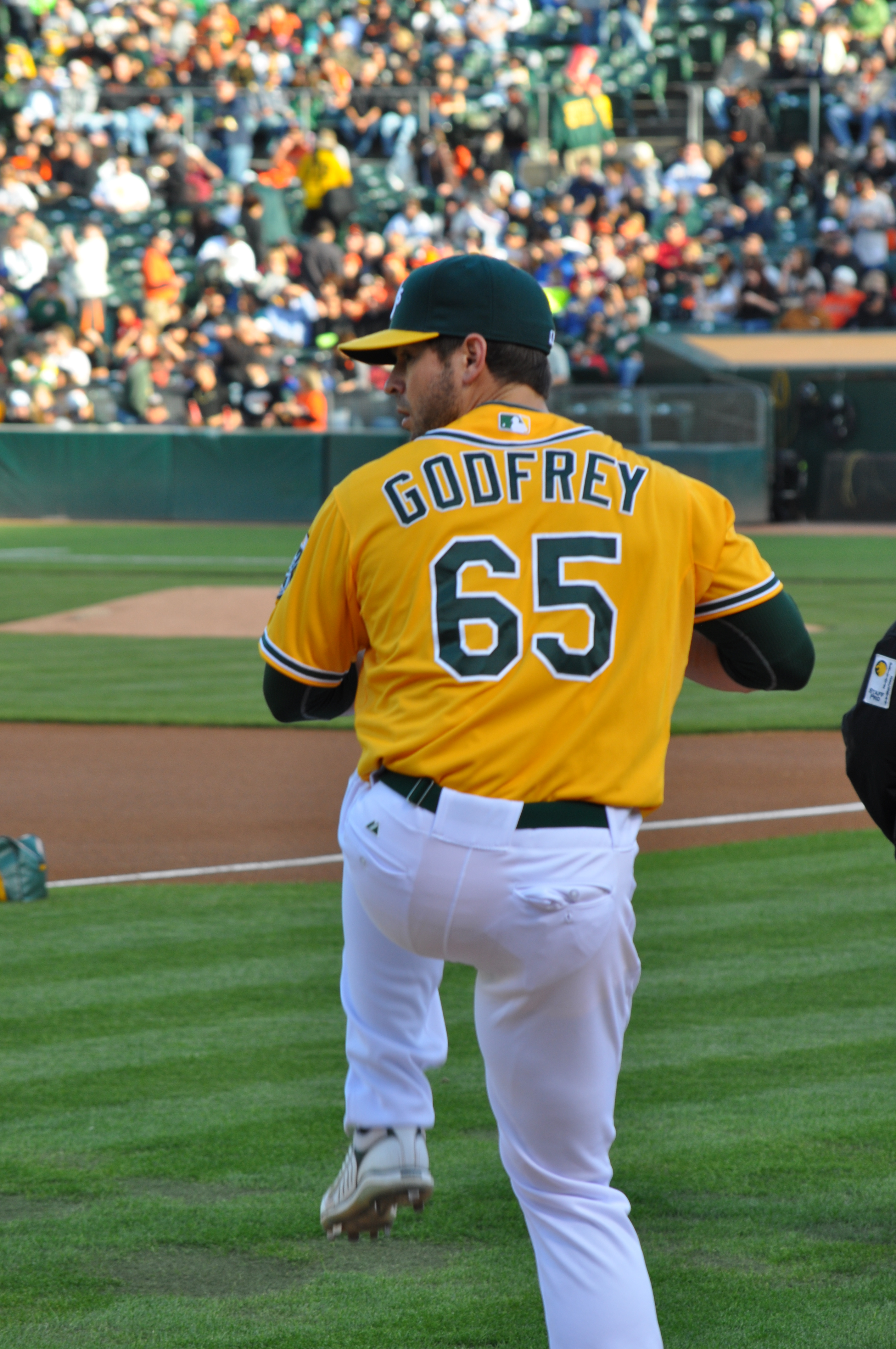 Graham Godfrey warms up before his start against the San Francisco Giants on 6/17/11 where he recorded his first MLB win.